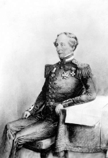 Painting of Rear Admiral Robert Lambert Baynes of H.M.S. Ganges. Source: Website: Image: Author: Undetermined, according to source archive Date: "185-", according to source archive Note: Public domain work despite the claims of BC Archives